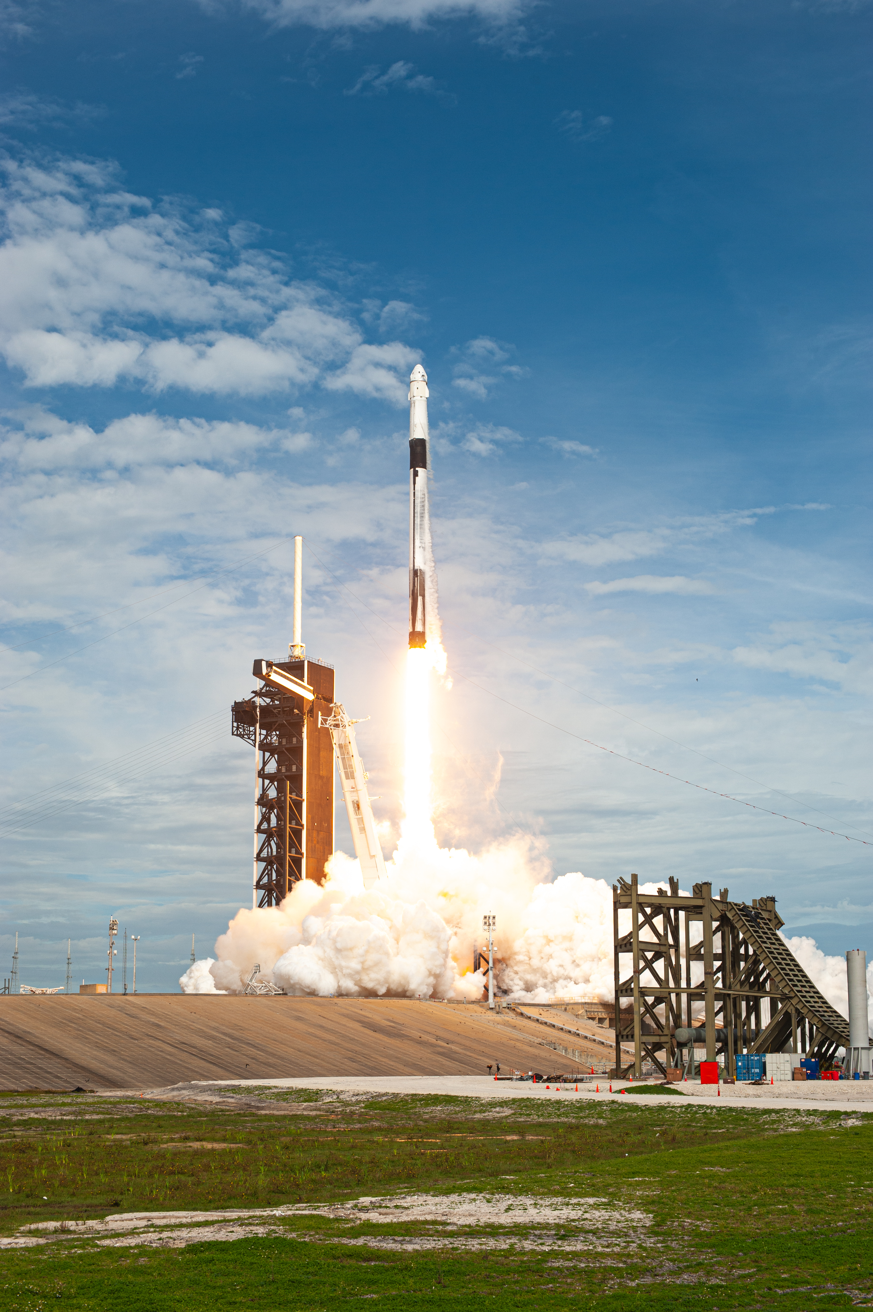 A SpaceX Falcon 9 rocket lifts off from Launch Complex 39A at NASA’s Kennedy Space Center in Florida at 10:30 a.m. EST on Jan. 19, 2020, carrying the Crew Dragon spacecraft on the company’s uncrewed In-Flight Abort Test. The flight test demonstrated the spacecraft’s escape capabilities in preparation for crewed flights to the International Space Station as part of the agency’s Commercial Crew Program.